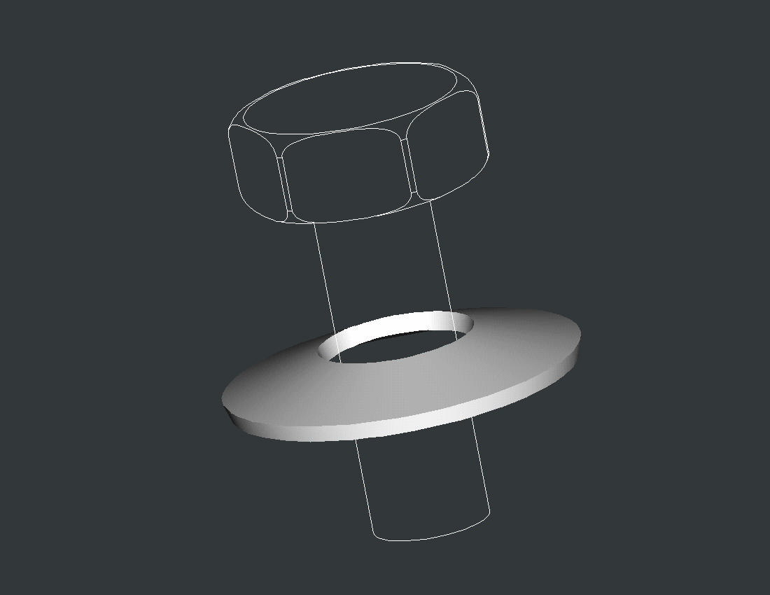 Belleville washer source: me Pud 22:42, 21 Aug 2004 (UTC)